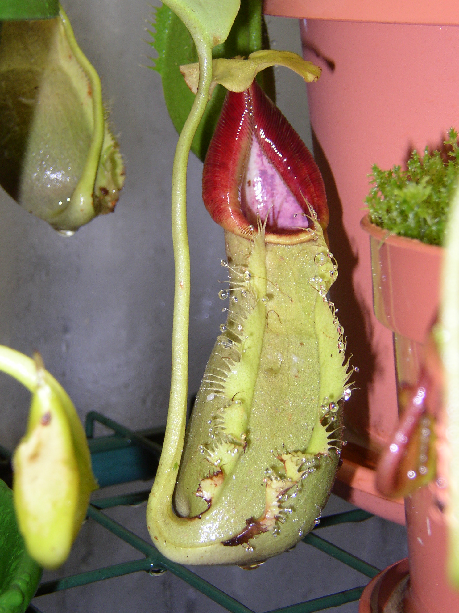 Photo of the photographers own plant.